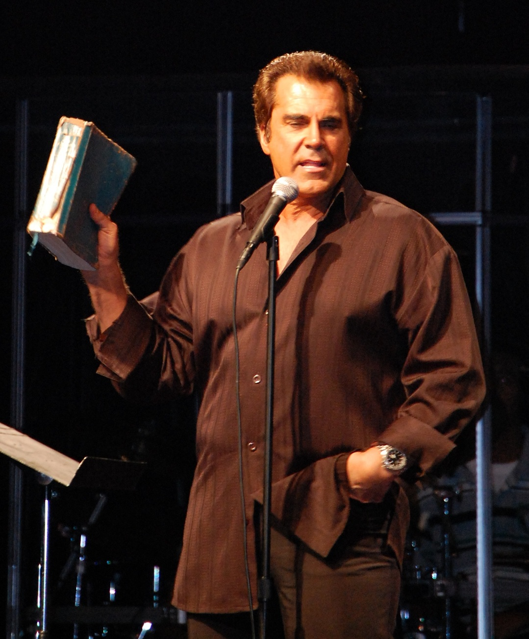 Carman in concert at Kingman First Assembly. Joshua and I went to the concert, it wasn' t much singing, but it was about helping people come to God so that was a good thing.